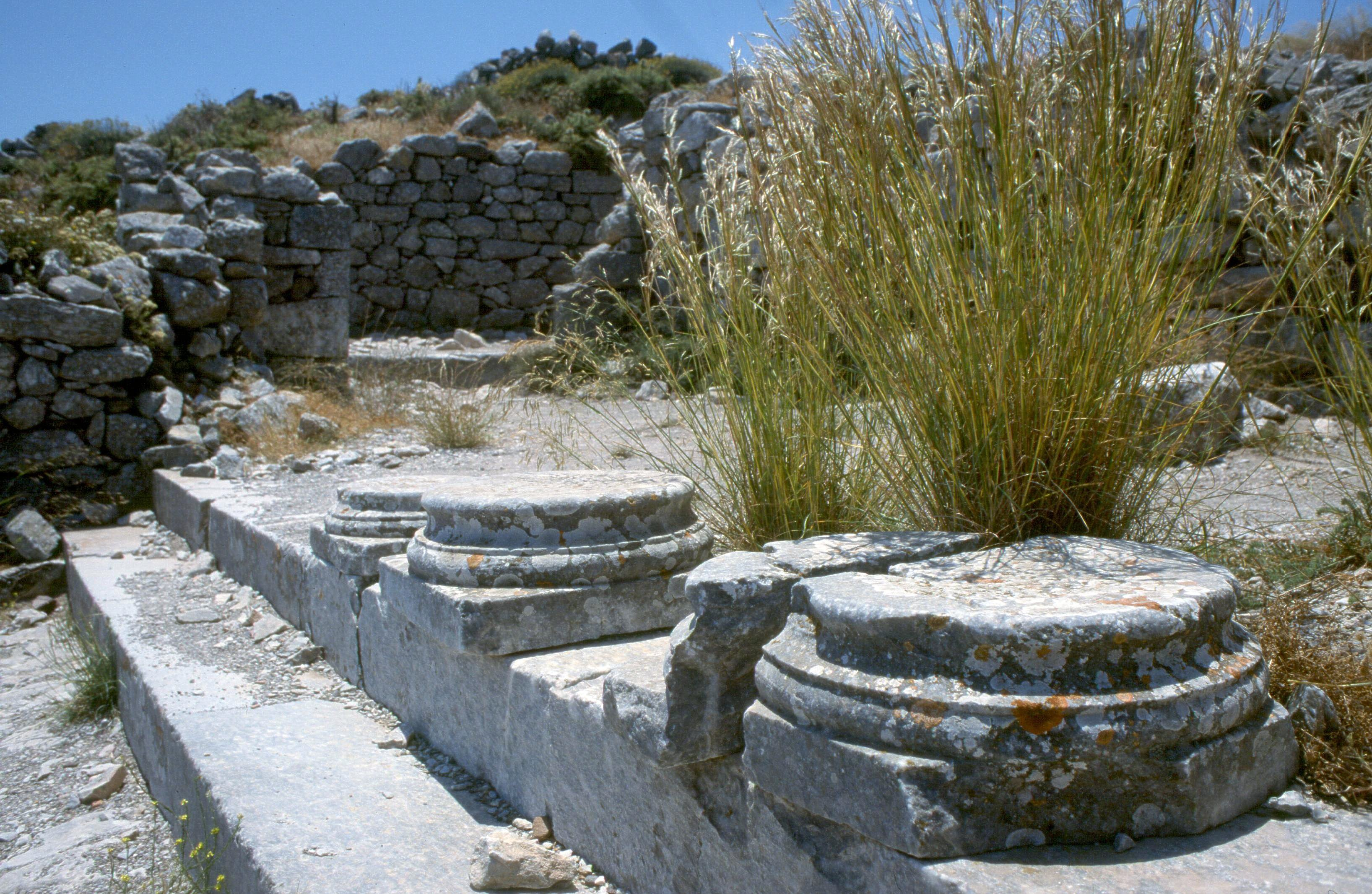 ruins of a porticus from the 1st century AD in ancient Thera on the greek island Santorini taken by self Benutzer:H-stt (Henning Schlottmann)